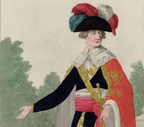 Jean-François-Auguste Moulin, member of the French Directory. Portrait by an unknown artist.